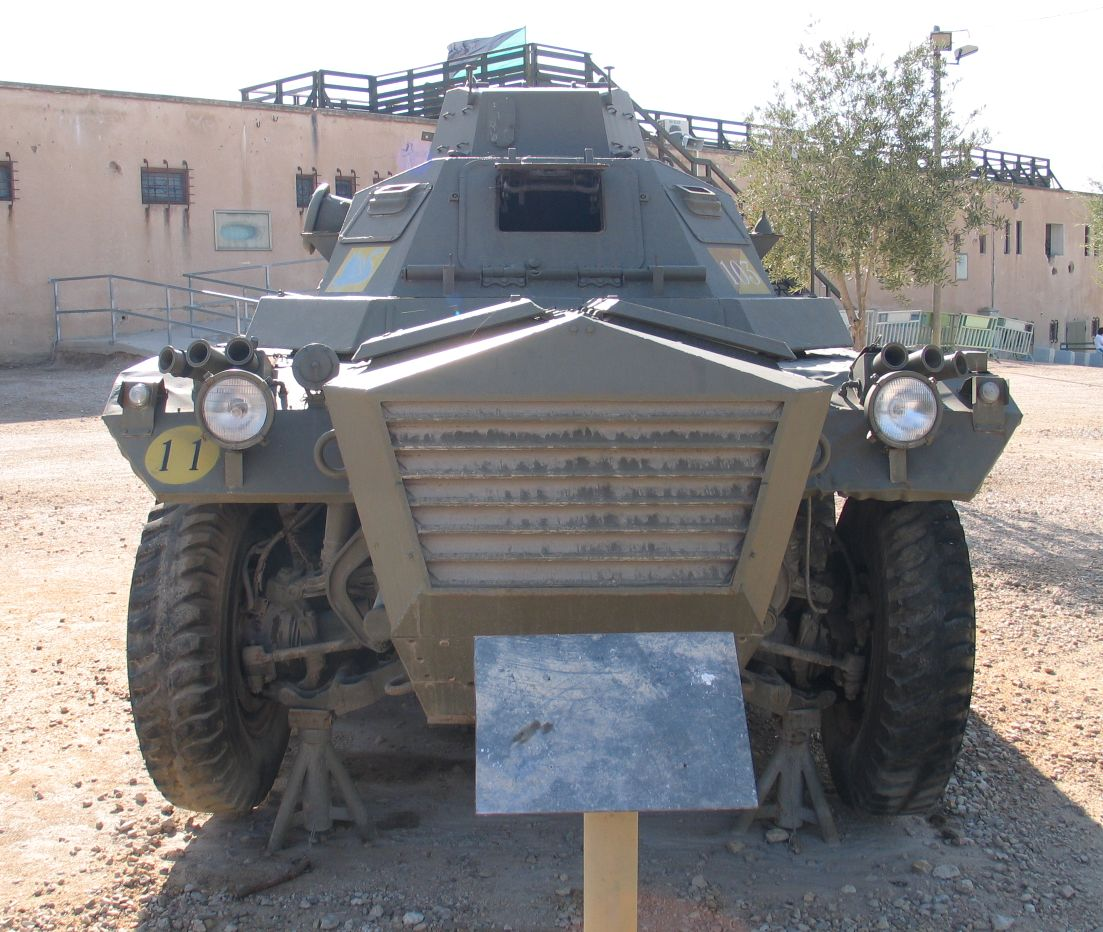 Description: Alvis FV 603 Saracen APC in Yad la-Shiryon Museum, Israel. 2005. Source: Photo by me, User:Bukvoed.